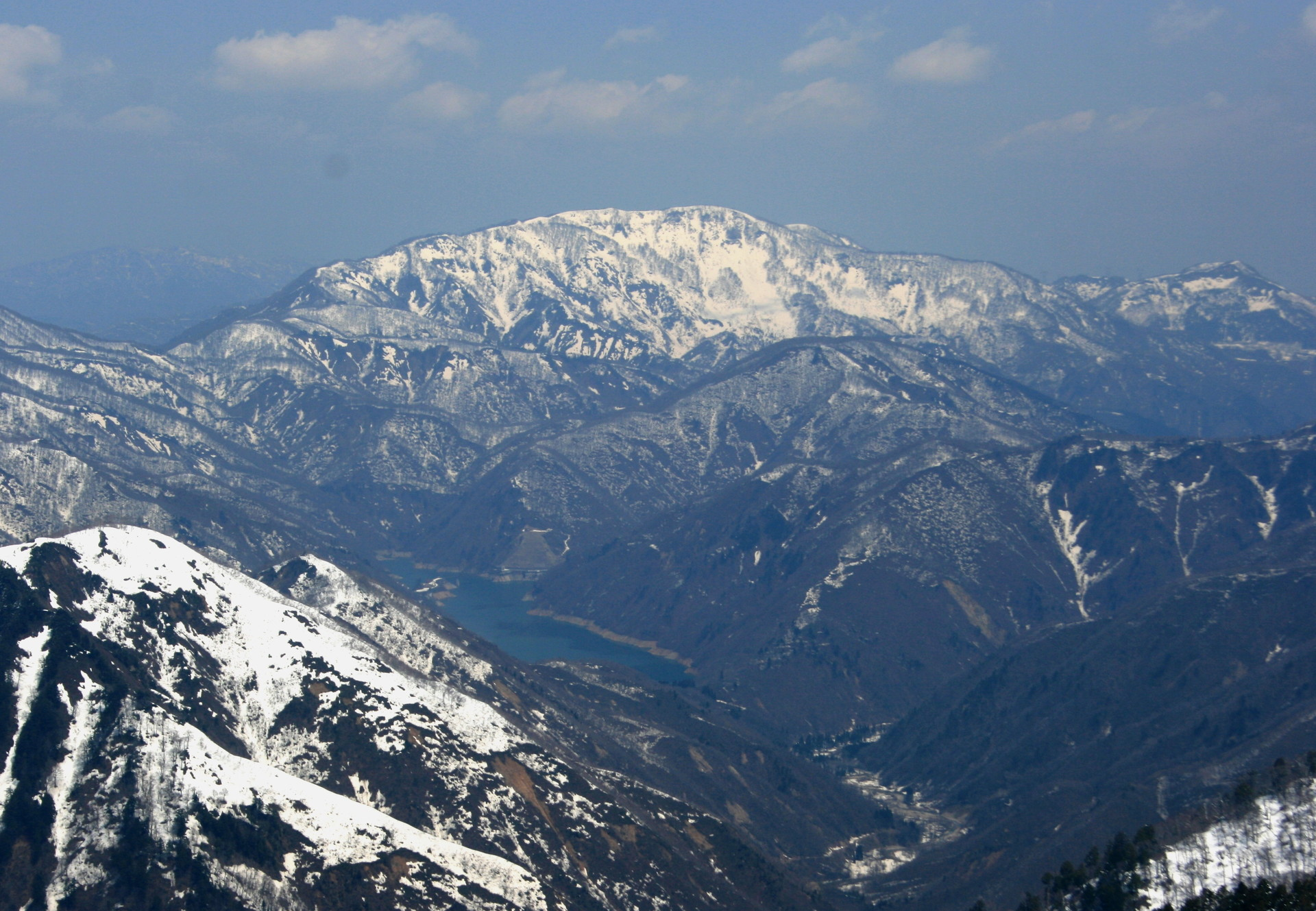 Mount_Oshishi_and_Mount_Saru_from_Mount_Sanpoiwa